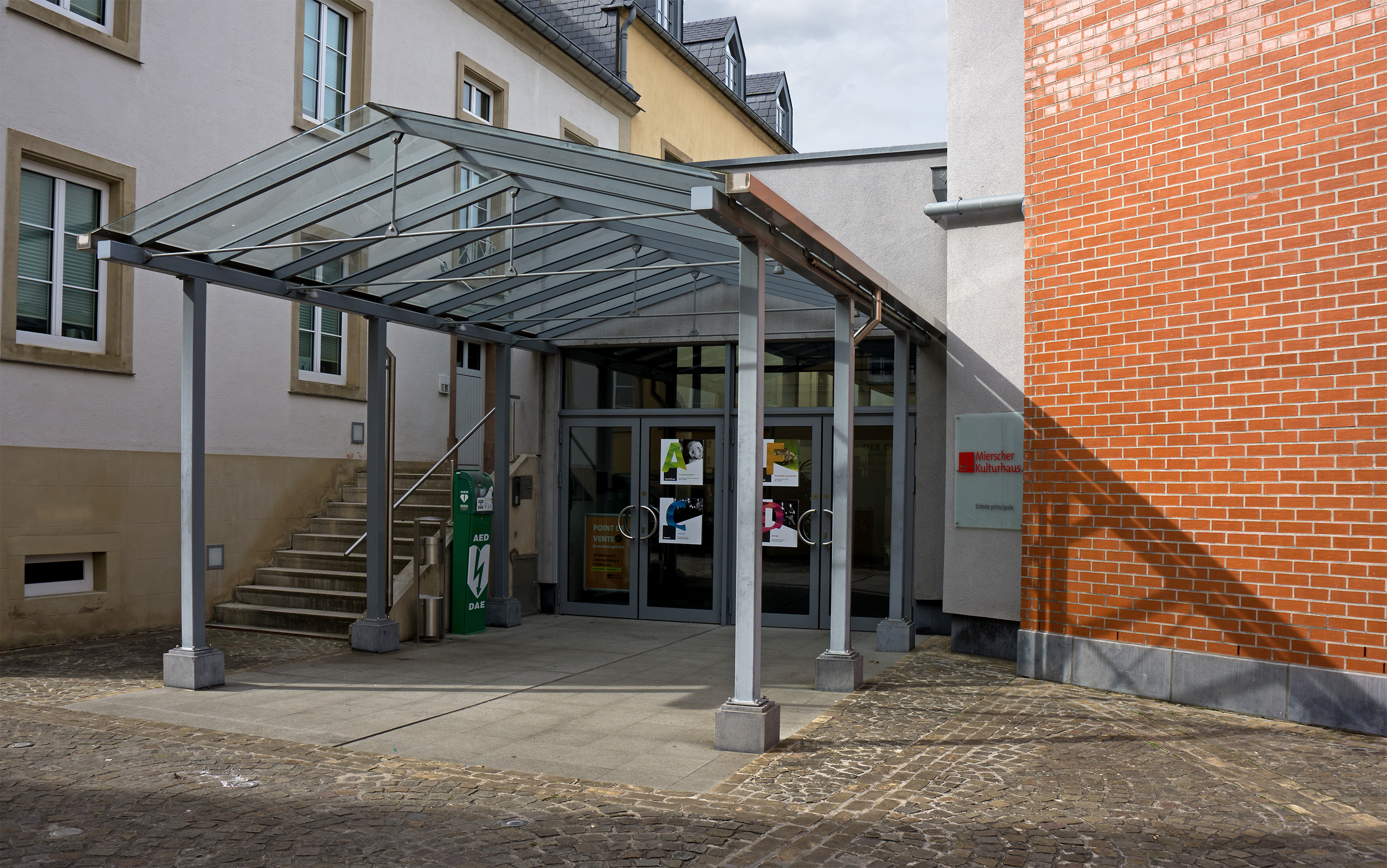 Entrance of the cultural center of Mersch